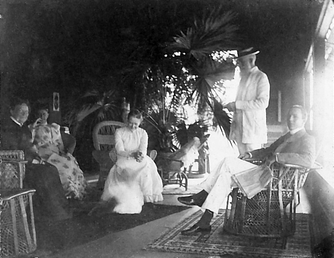 Sanford B. Dole and family.